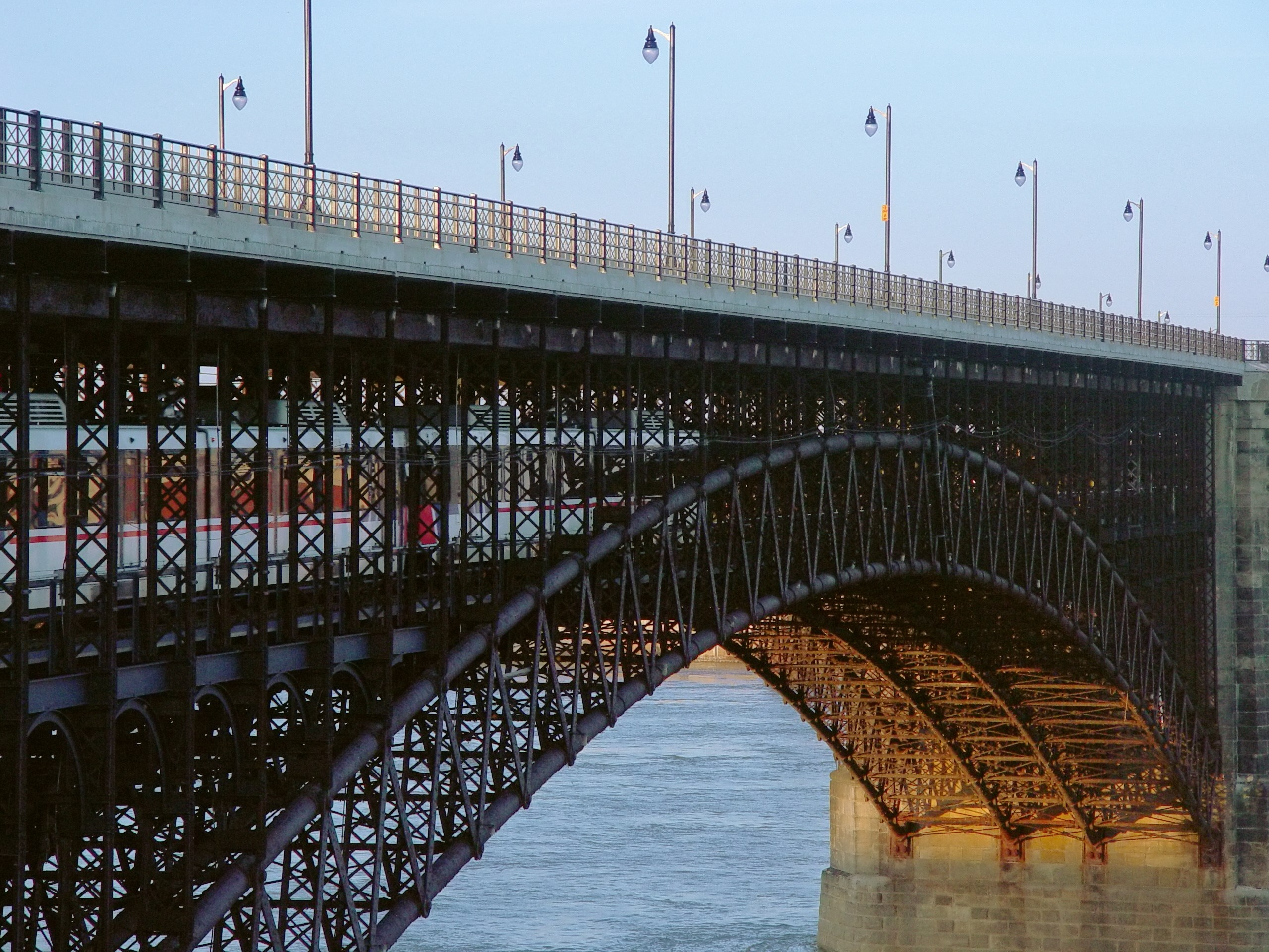 Eads Bridge in Saint Louis, MO. U.S.A. showing MetroLink light rail train on lower deck. Light posts for the upper two-lane automobile deck can be seen along the upper rail.